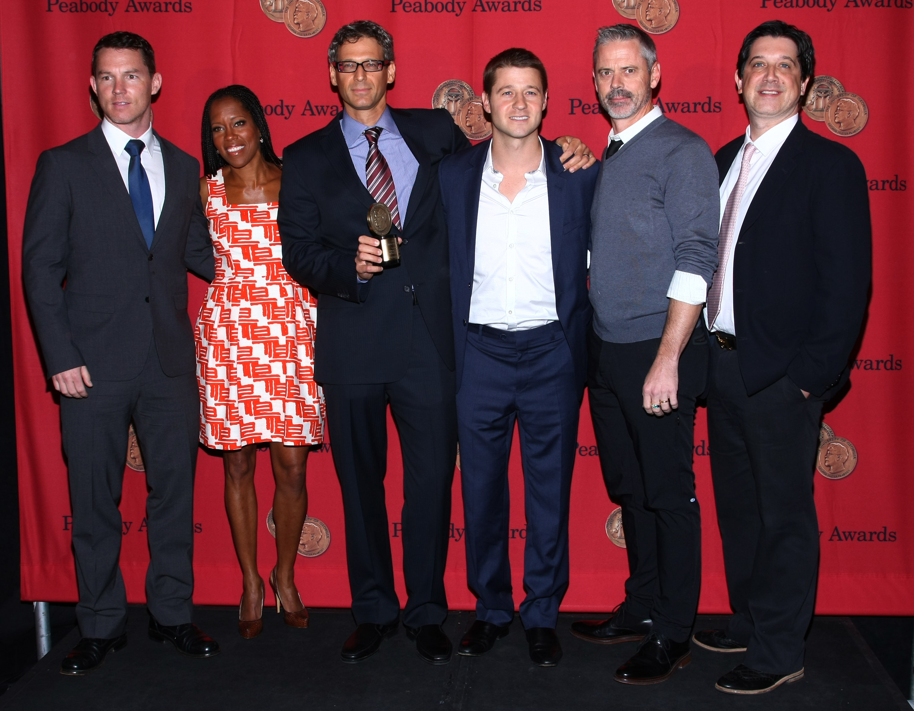 PHOTO CREDIT: ANDERS KRUSBERG / PEABODY AWARDS Shawn Hatosy, Regina King, Jonathan Lisco, Benjamin McKenzie, C. Thomas Howell, and John Wells (?) of Southland (TV series), 72nd Annual Peabody Awards Luncheon, Waldorf-Astoria Hotel, May 20, 2013